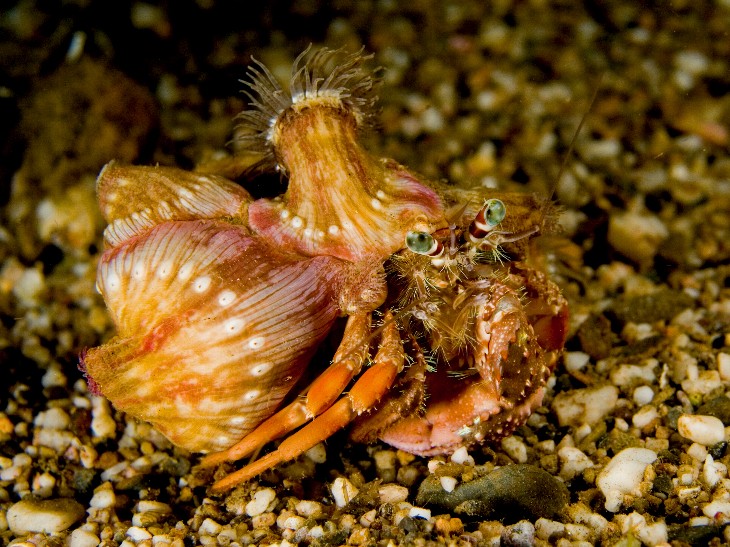 Dardanus pedunculatus Hermit crab with symbiotic anemones Calliactis sp. attached to its shell. The anemones provide protection with their stinging cells while they benefit from the mobility that the crab provides.